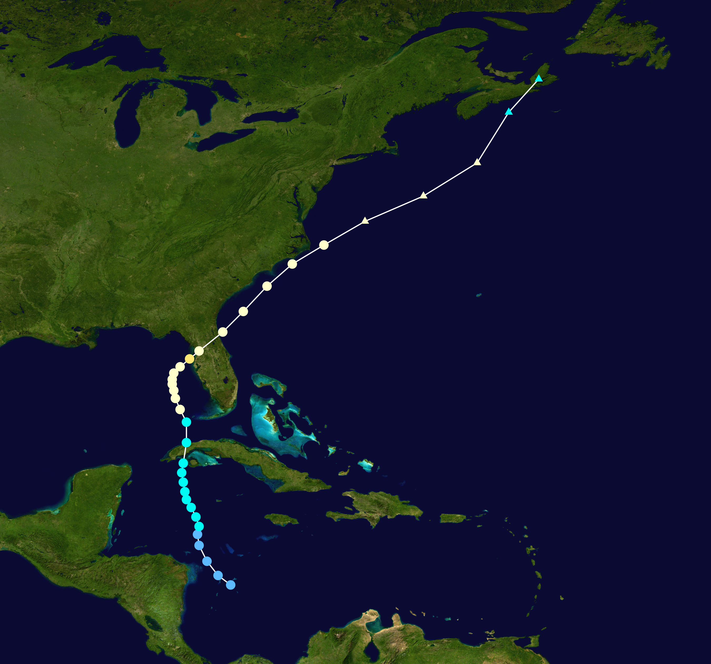 Hurricane Gladys (1968) track. Uses the color scheme from the Saffir-Simpson Hurricane Scale.